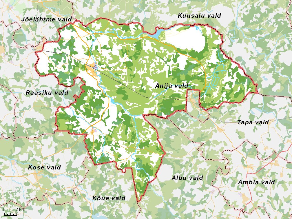 Map of municipality in Estonia